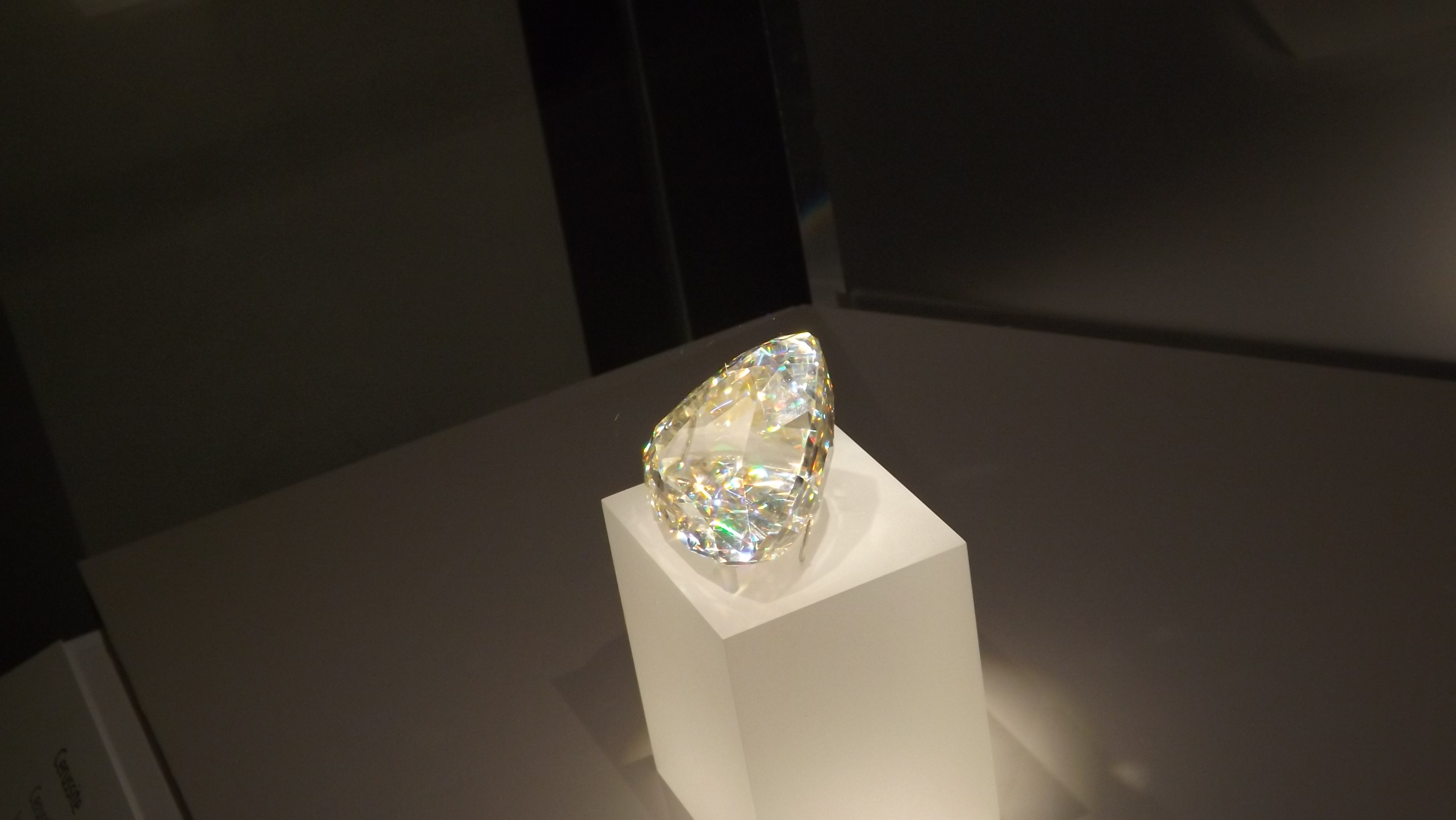 angled view of the Light of the Desert